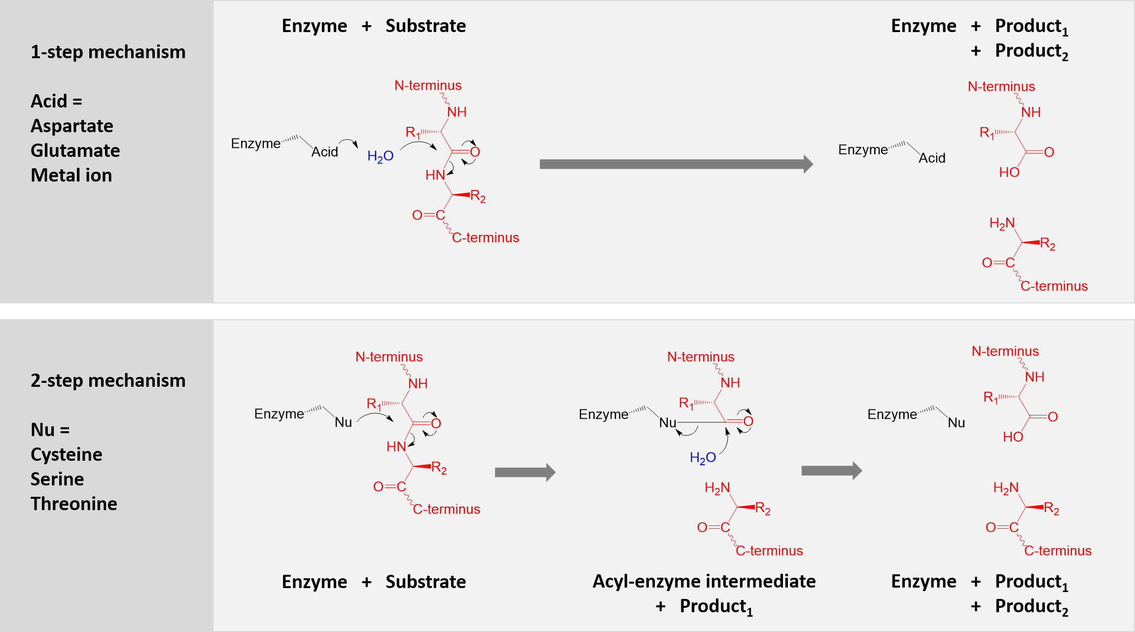 A comparison of the two mechanisms used for proteolysis. enzyme is shown in black, substrate protein in red and water in blue.The top panel shows 1-step hydrolysis where the enzyme uses an acid to polarise water which then hydrolyses the substrate. The bottom panel shows 2-step hydrolysis where a residue within the enzyme is activated to act as a nucleophile (Nu) and attack the substrate. This forms an intermediate where the enzyme is covalently linked to the N-terminal half of the substrate. In a second step, water is activated to hydrolyse this intermediate and complete catalysis. Other enzyme residues (not shown) donate and accept hydrogens and electrostatically stabilise charge build-up along the reaction mechanism.